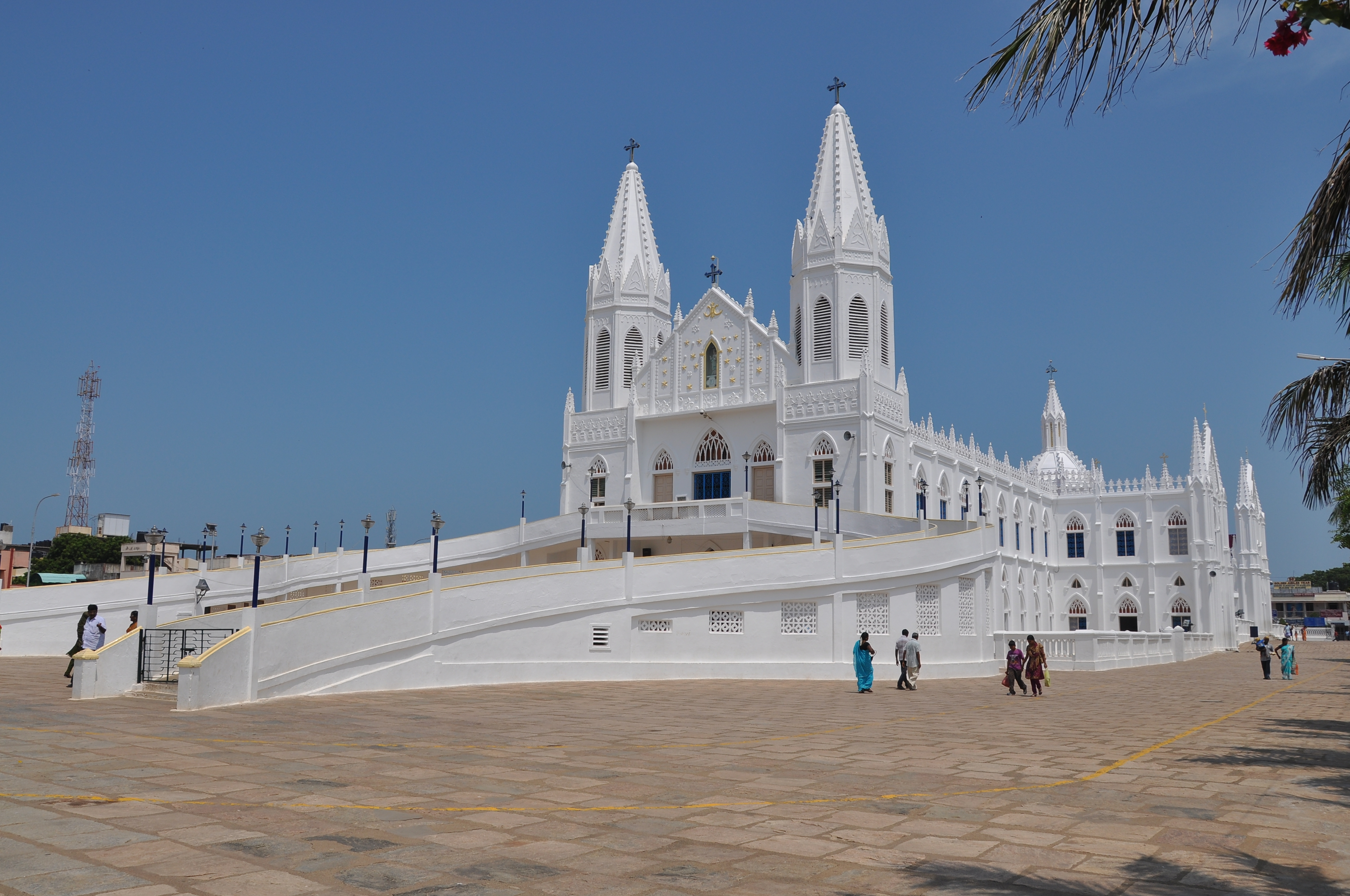 Velan kanni